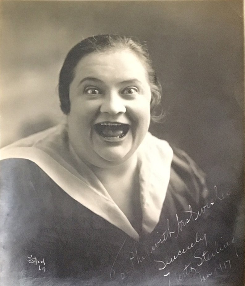 Autographed portrait of American actress Merta Sterling (1883–1944) by Albert Witzel (Witzel Studios, L.A.)